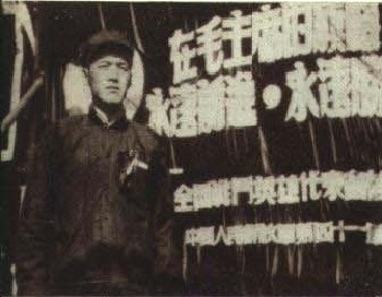 1950年10月，中华人民共和国全国战斗英雄会议，1950年8月的《人民画报》。